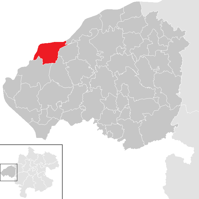 district Braunau am Inn